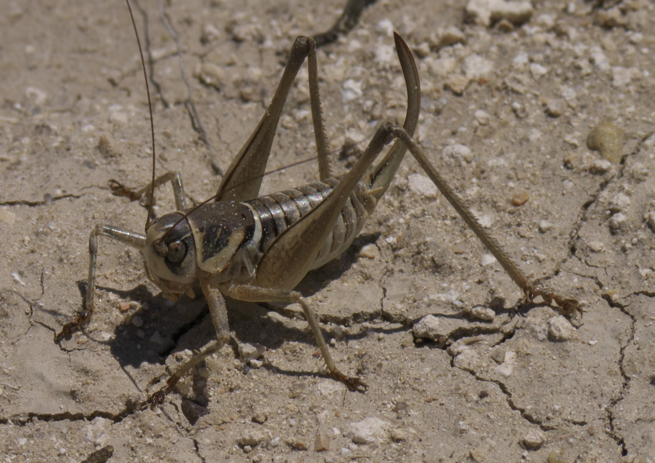 Pediodectes stevensonii, Stevenson's Shieldback, ID Confidence: 98